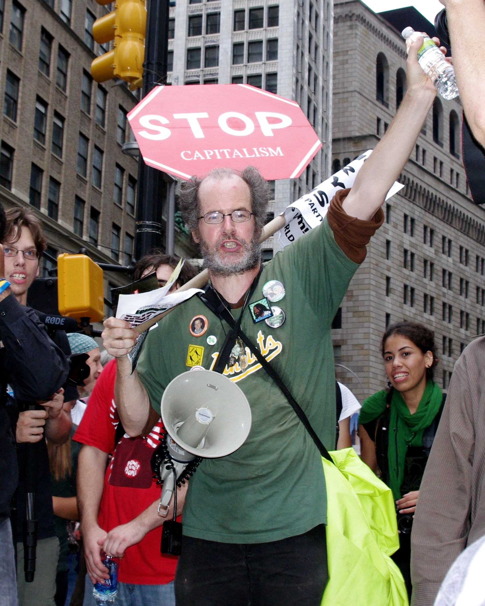 The protest event Occupy Wall Street in Zuccotti Park in New York, on Day 8, September 24. Wall Street has been barricaded off to the public for over a week.